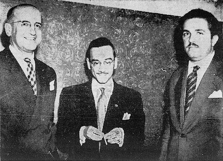 From left to right, Brazilian intellectuals Aurélio Buarque de Holanda, Marques Rebelo and Otávio Tarquínio de Sousa.